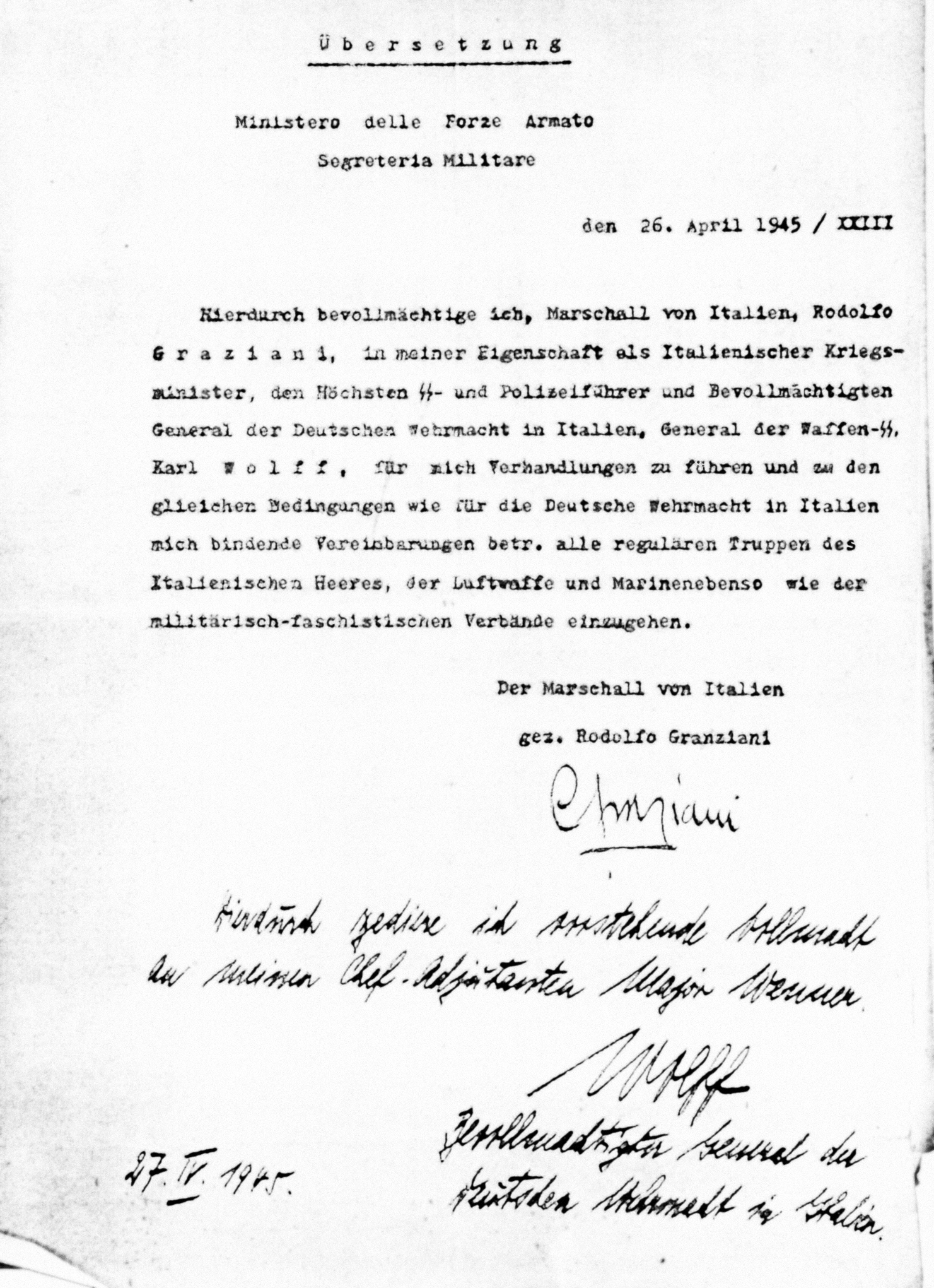 German translation from Italian by Graziani's proxy for the Caserta surrender